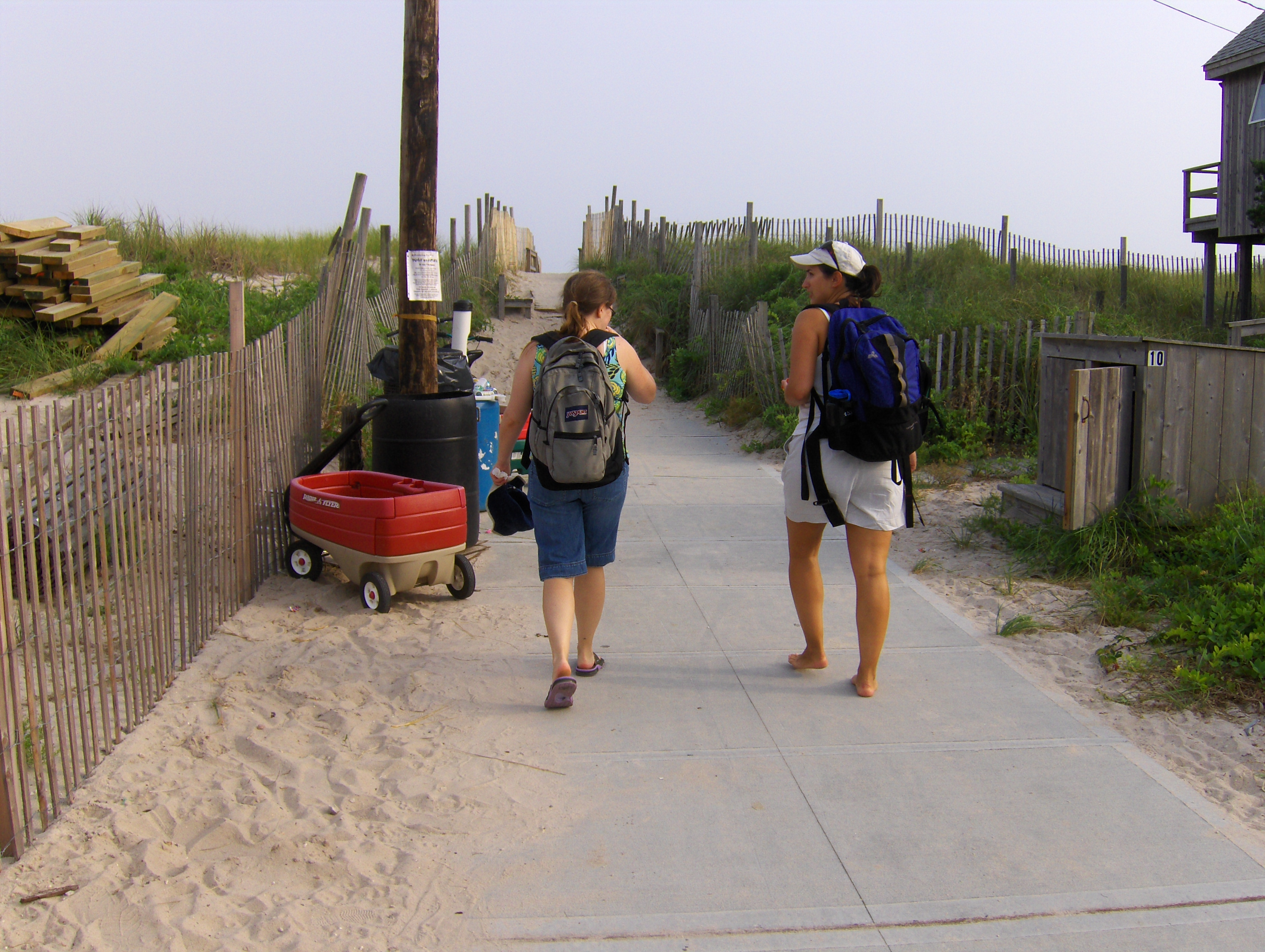 Leaving the beach house and heading back to the car.